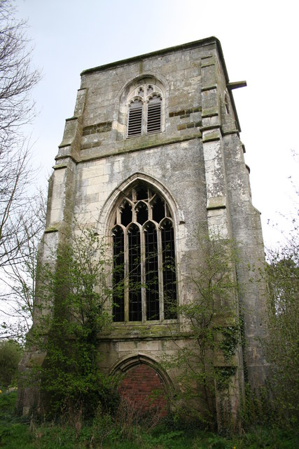 Saltfleetby St.Peter old church Standing half a mile NE of the new church, all that remains of the old church is the Perpendicular tower of greenstone and white ashlar .... Perpendicular in style but not in vertical alignment !